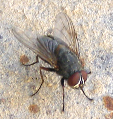 A House Fly resting on a wall. Unknown Muscidae